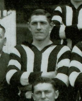 Photograph of George Wilson from 1942-1943